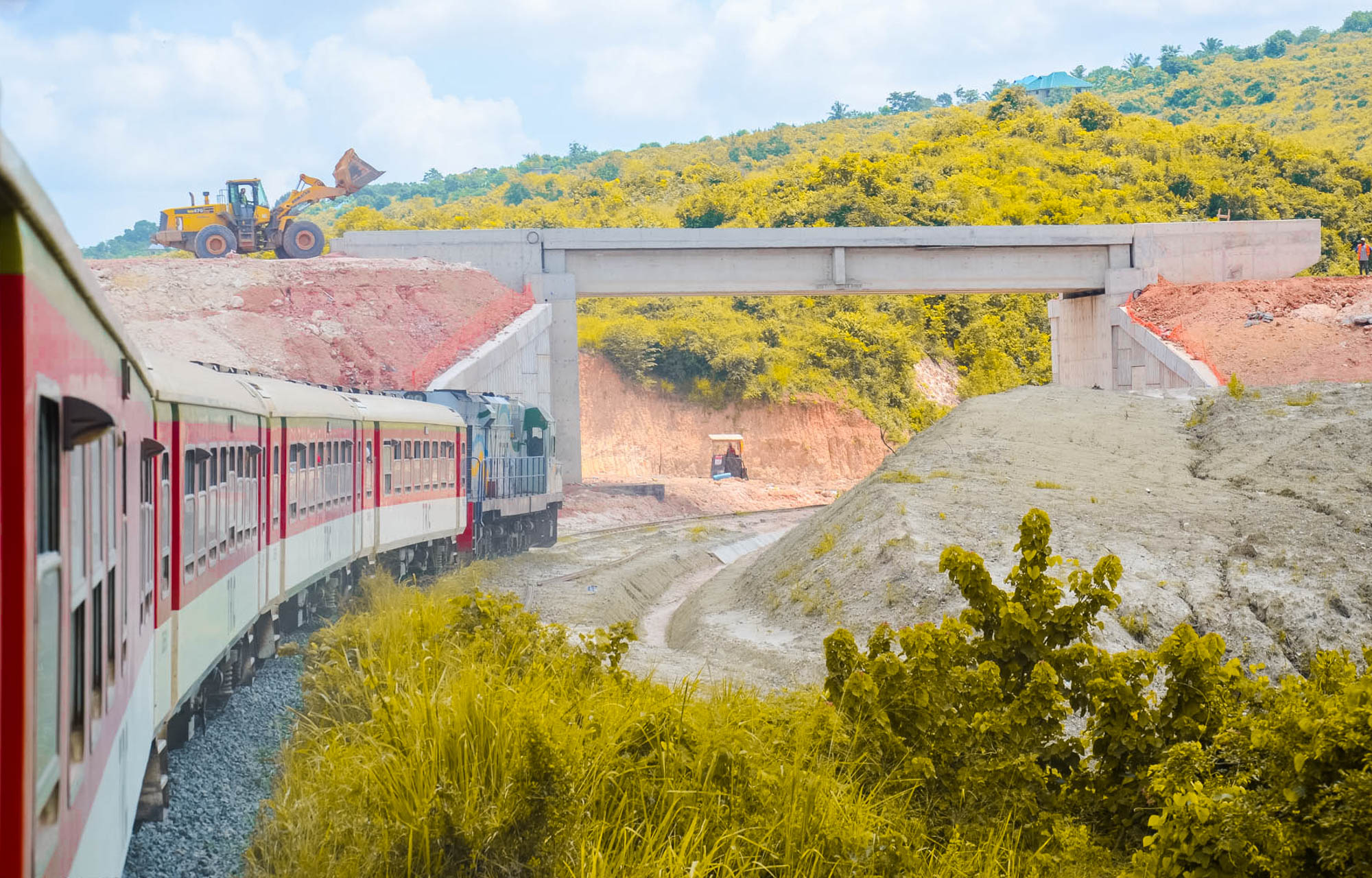 The Tanzania Railways Corporation (TRC) is a state-owned enterprise that runs one of Tanzania's two main railway networks. When the East African Railways and Harbours Corporation was dissolved in 1977 and its assets divided between Kenya, Tanzania and Uganda, TRC was formed to take over its operations in Tanzania. This is an image with the theme "Africa on the Move or Transport" from: Tanzania